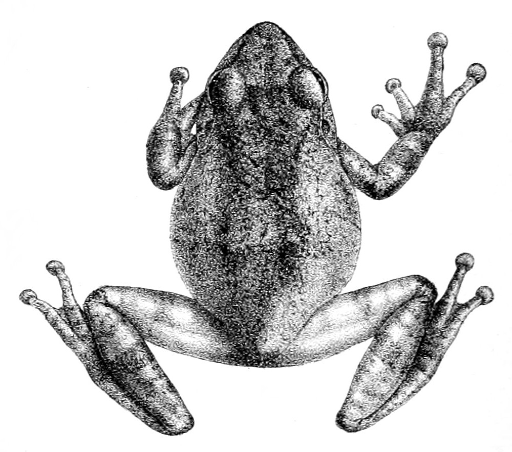 Rhacophorus dubius = Philautus dubius